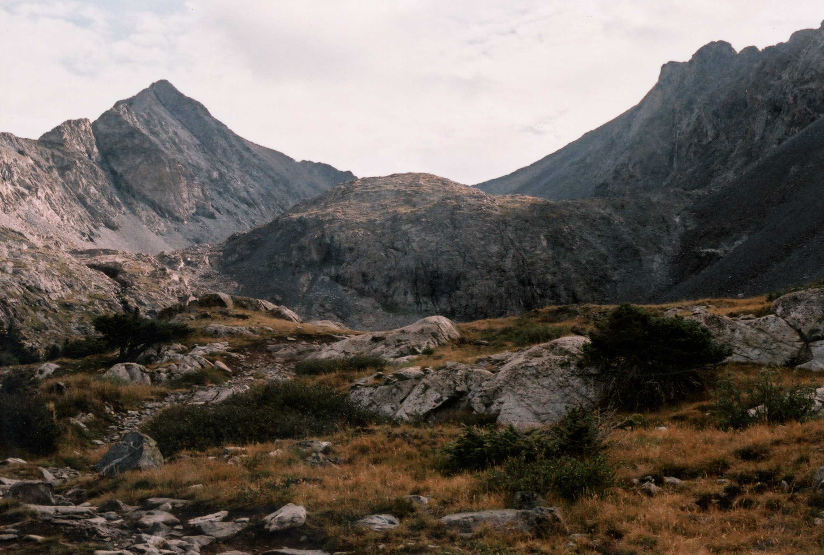 I took this photo from the top of a knob just above the upper Blue Lake. Looking up the valley to the left is Ellingwood Point, to the right is Blanca Peak. Just beyond that hump in the middle is Crater Lake, site of the old Commodore gold mine.